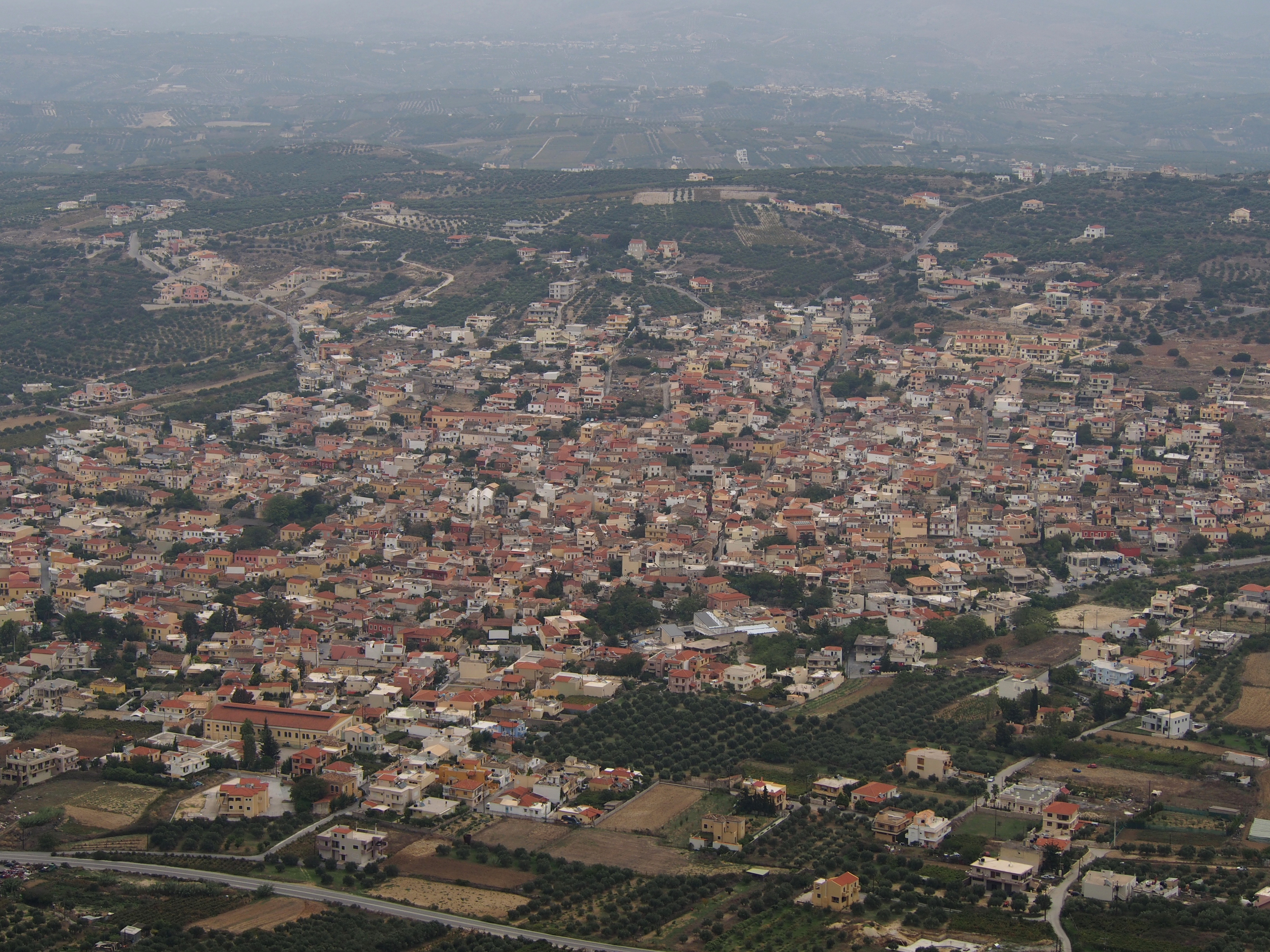 Panoramic view of Epano Archanes, Crete, from Juchtas.